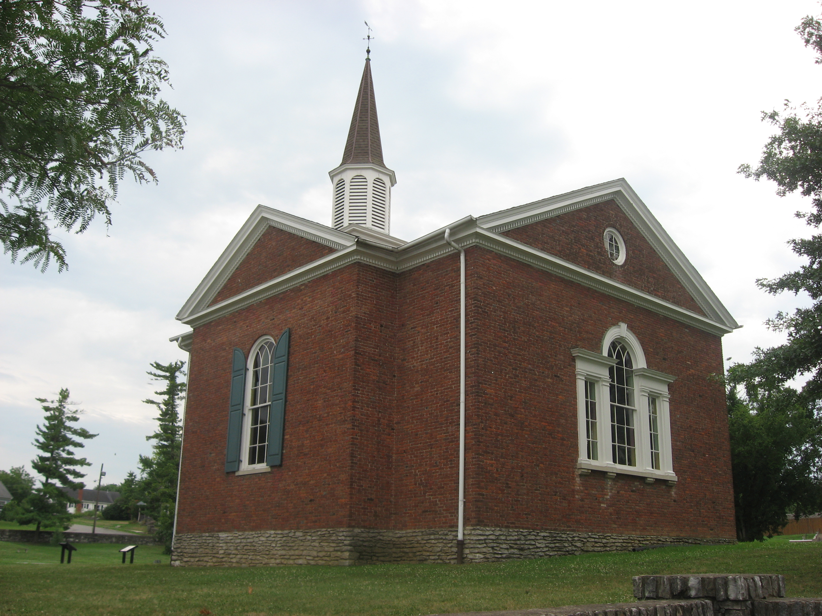 Rear of the Lincoln Marriage Temple, which shelters the cabin in which Thomas Lincoln married Nancy Hanks. Built in 1931, it is part of Old Fort Harrod State Park, which lies along College Street (U.S. Routes 68 and 127) in Harrodsburg, Kentucky, United States.